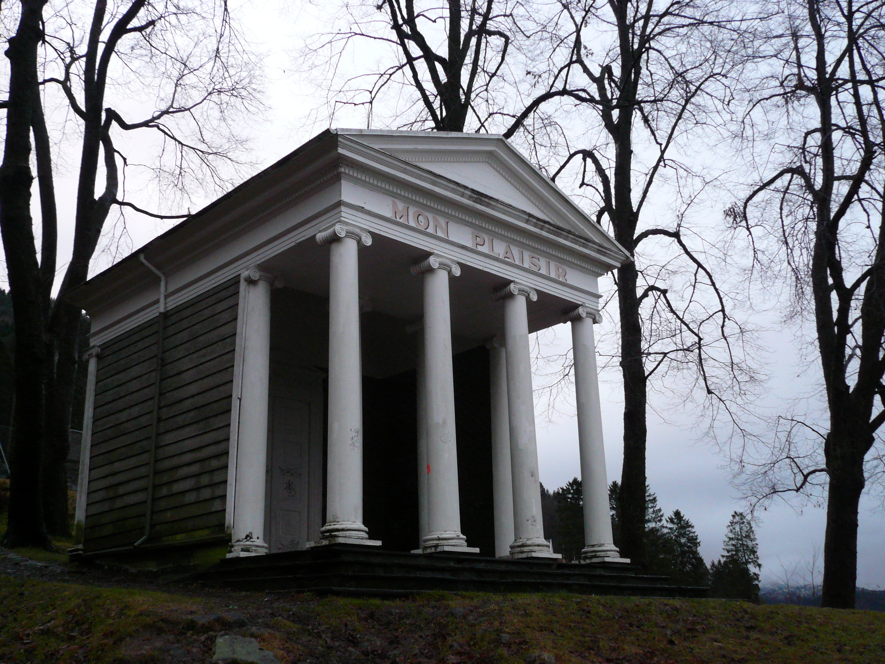 Pavillion Mon Plaisir in Bergen, Norway.